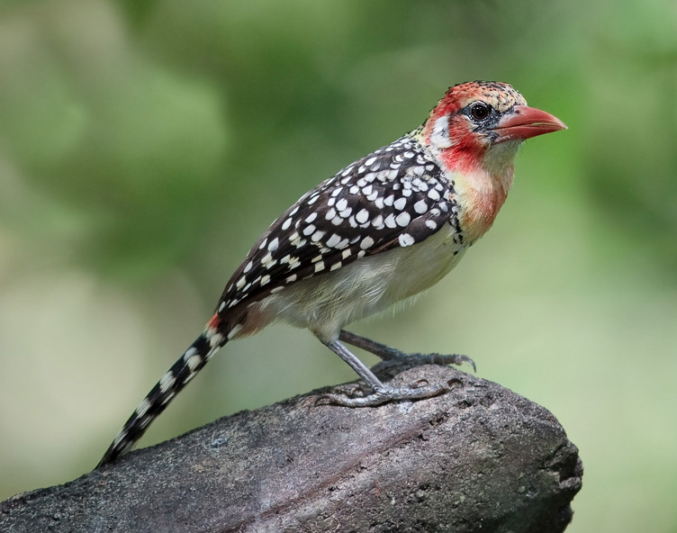 Red-and-yellow Barbet (Trachyphonus erythrocephalus)